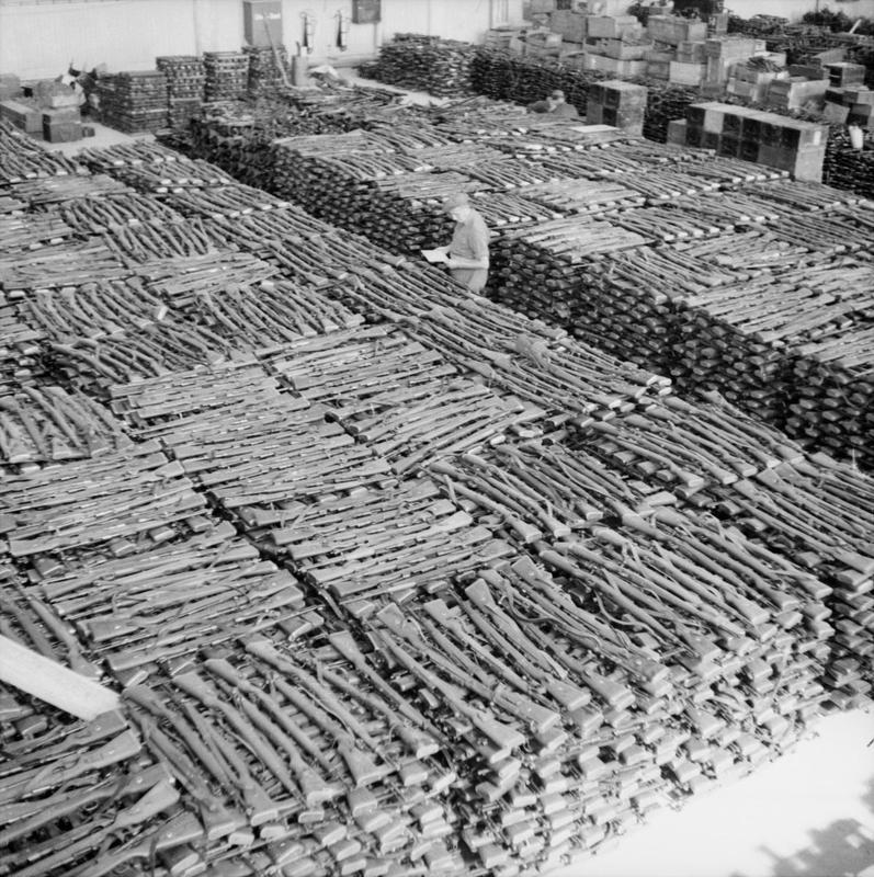 Norway After Liberation 1945 Storeroom at Sola aerodrome, Stavanger, holding some of the estimated 30,000 rifles taken from German forces in Norway after their surrender.